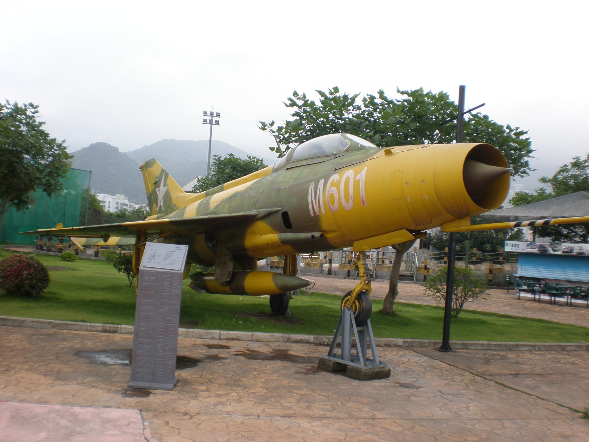 A Chengdu J-7 on display at the Minsk World theme park in Shenzhen, PRC.